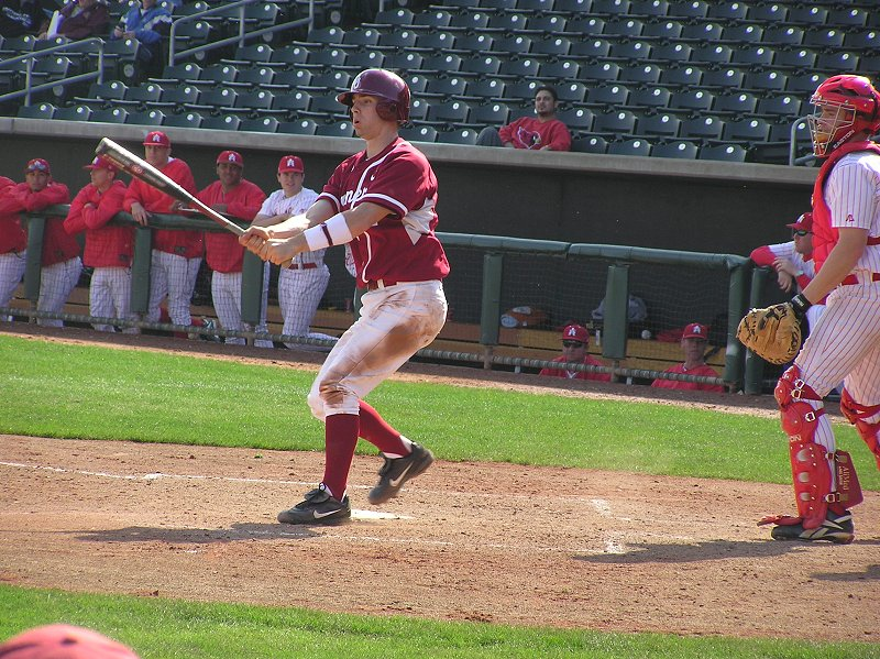 Ryan against South Alabama